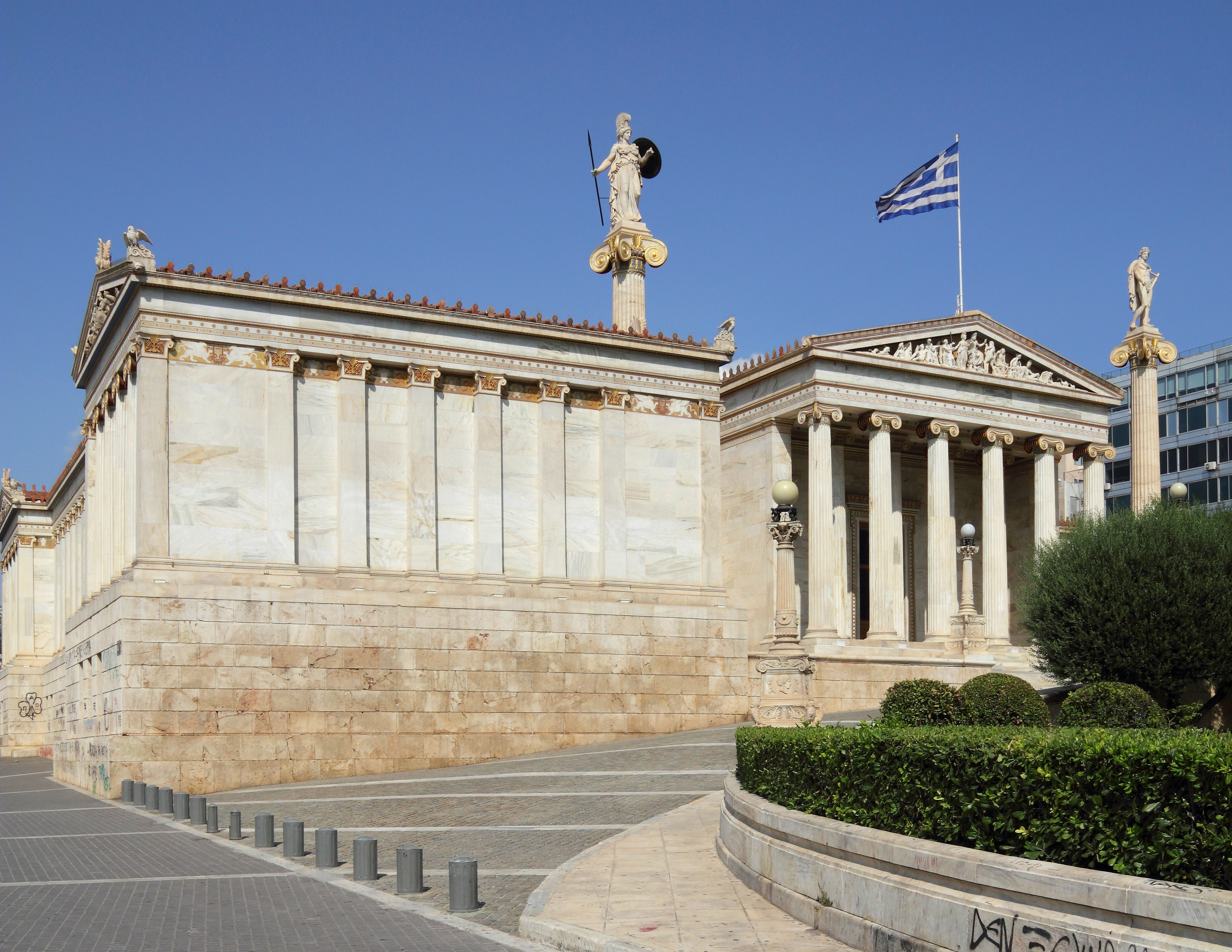 Building of the Academy of Athens (Attica, Greece)